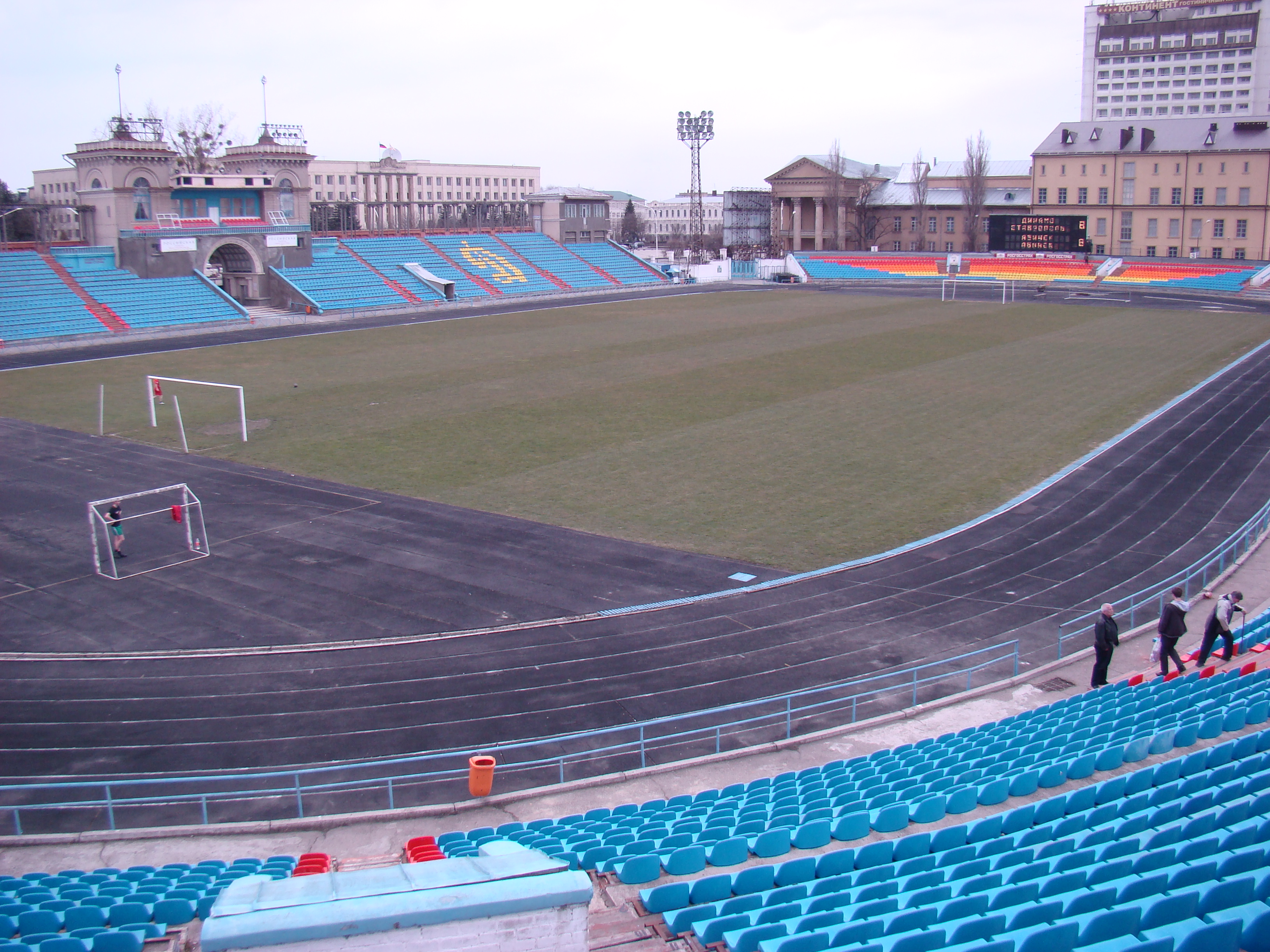 Dynamo stadium, Stavropol city, Russia